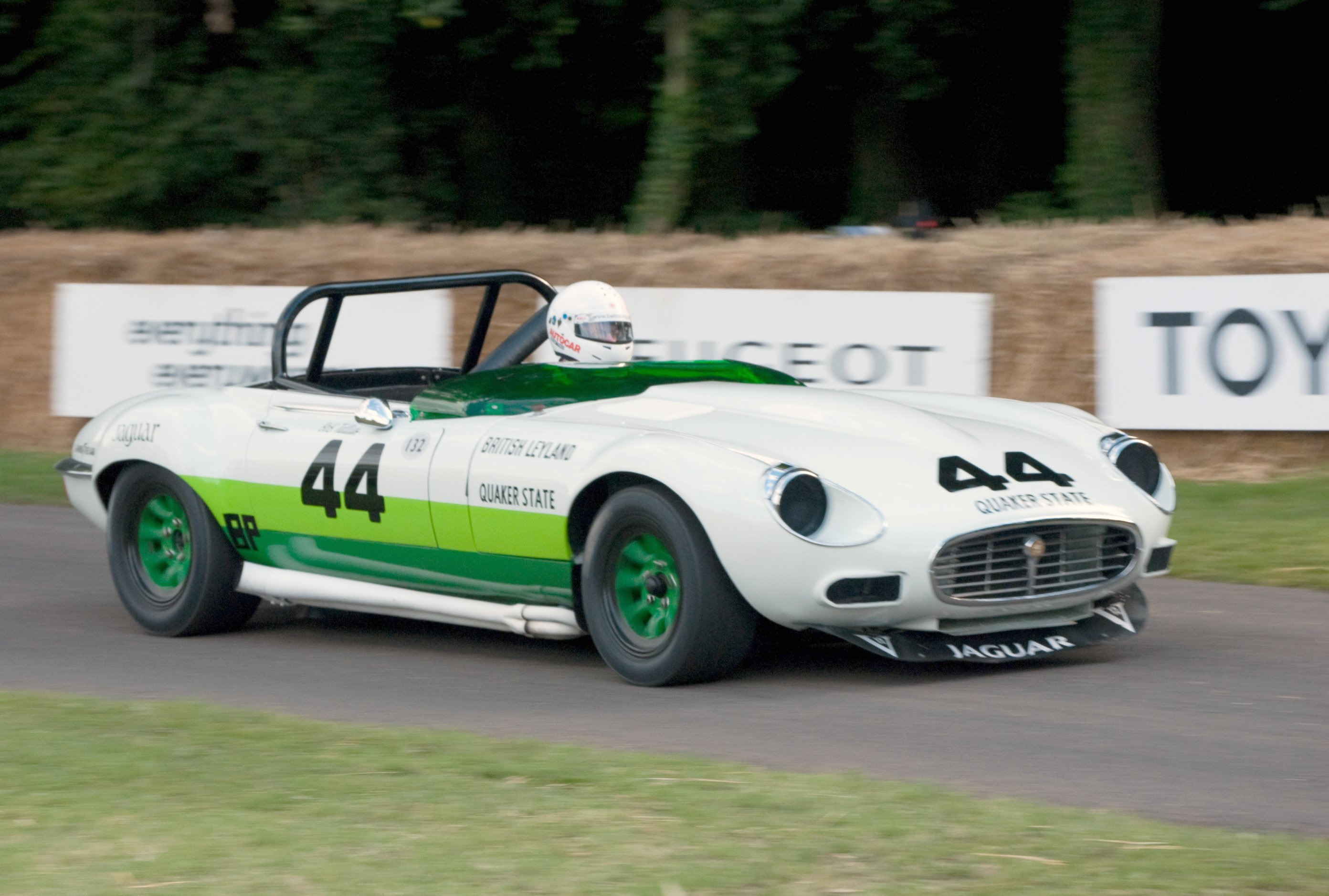 Jaguar at Goodwood Hill